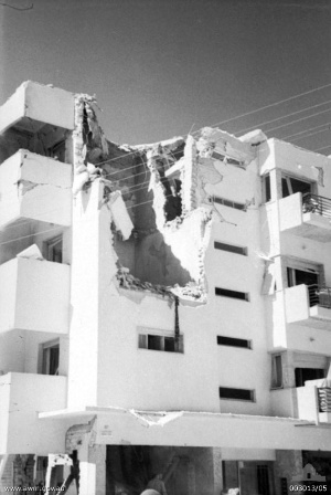 Severe damage sustained to a building in Tel Aviv in a bombing